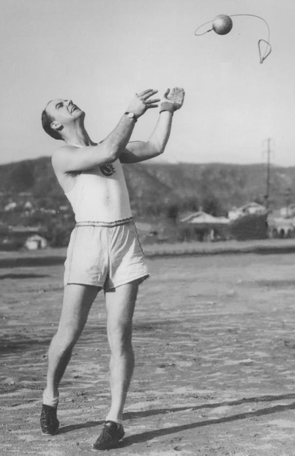 1931 Press Photo Edward F. Flanagan throwing Hammer Traning for Olympic Games